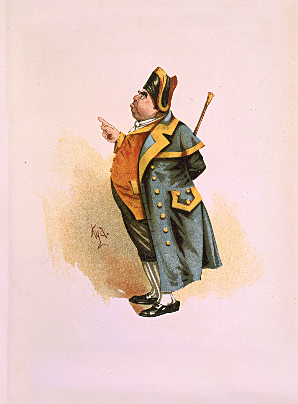 From "Character Sketches from Charles Dickens, Pourtrayed by Kyd", or "The Characters of Charles Dickens Pourtrayed in a Series of Original Water Colour Sketches by Kyd." Scanned and archived at where it was marked as Public Domain.